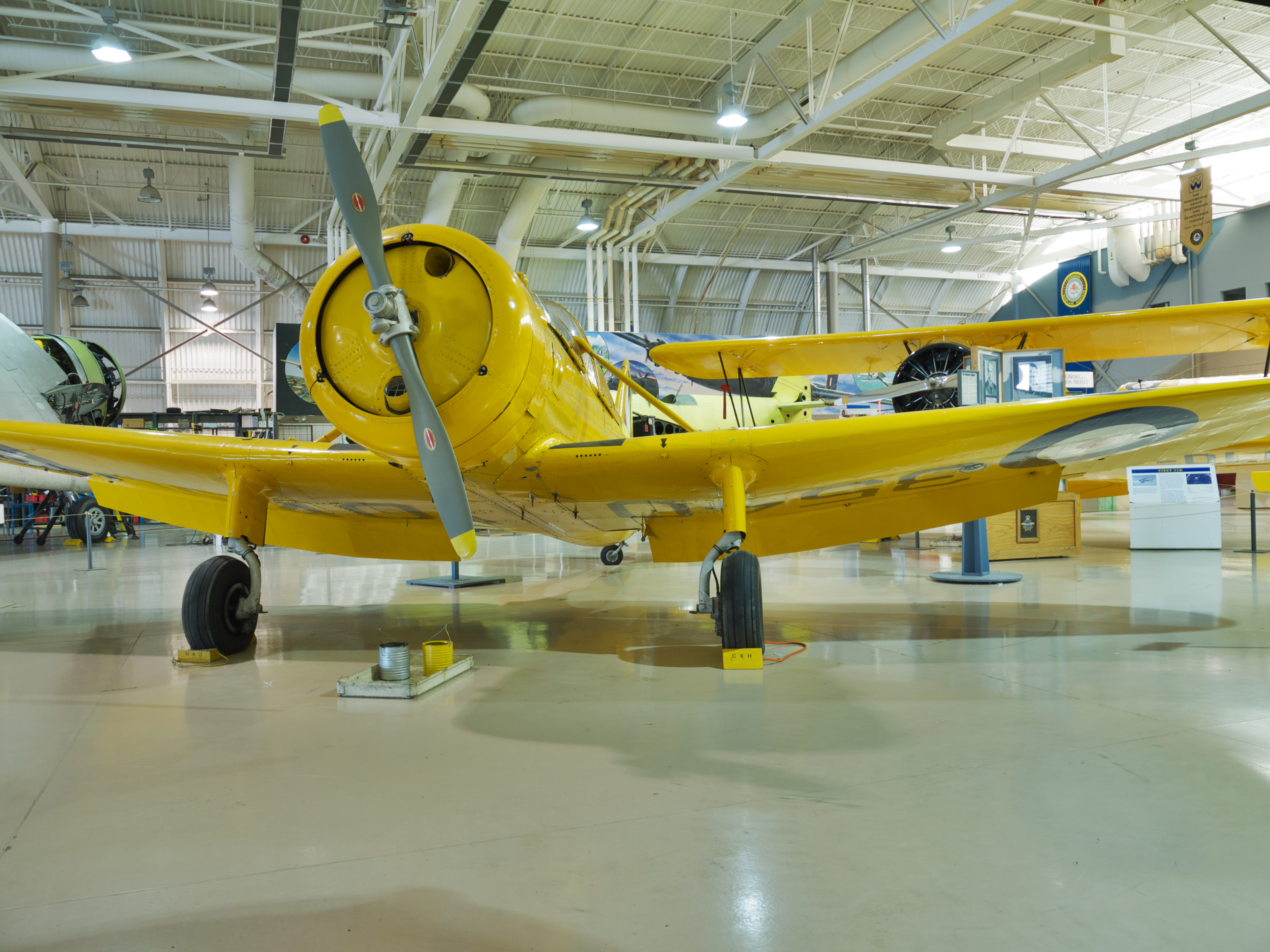 Fleet Fort trainer (RCAF 3540) at Canadian Warplane Heritage Museum in Hamilton, Ontario.